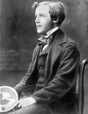 unknown source; found various places on the web; certainly PD by now